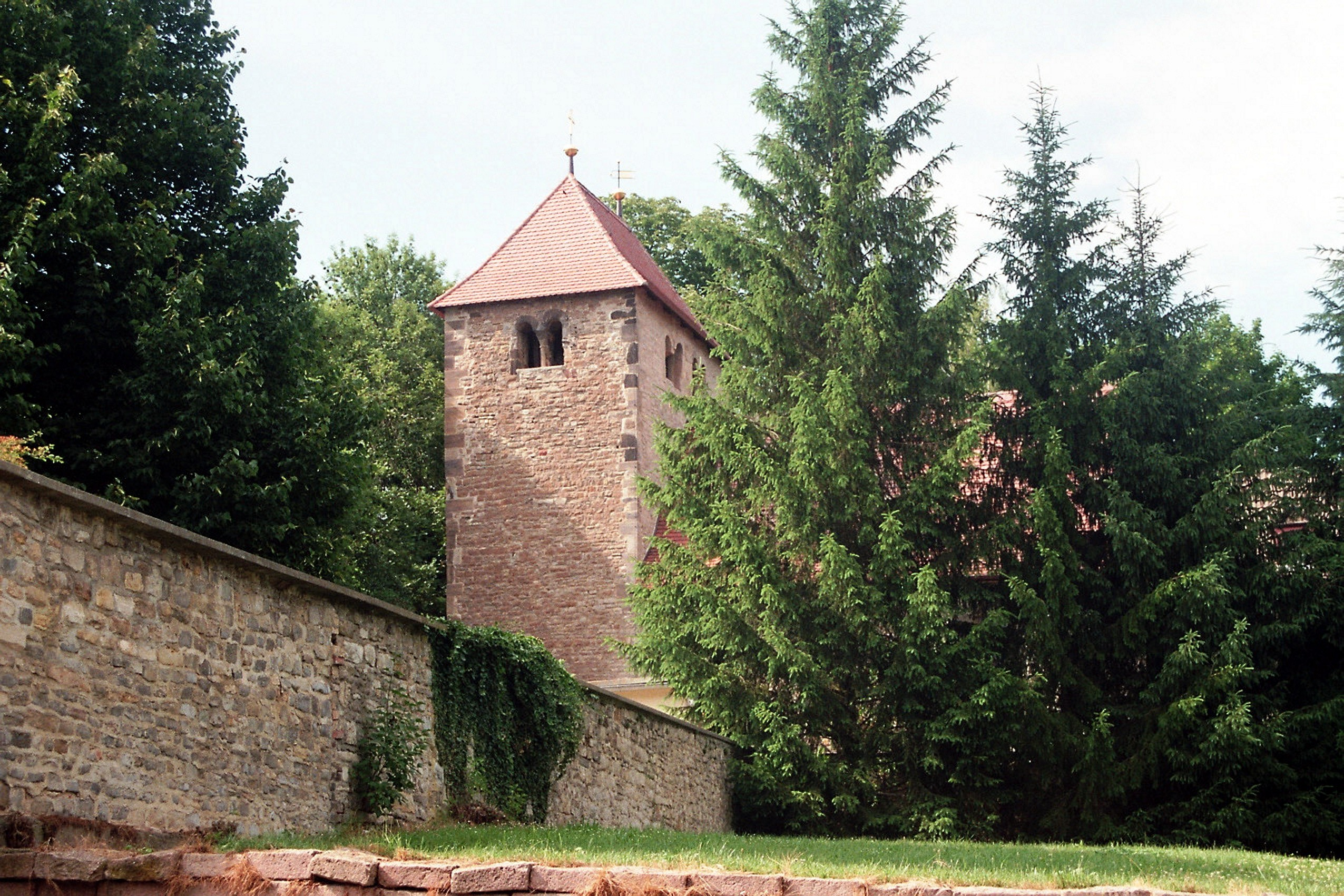 Heiligenthal (Gerbstedt), the village church